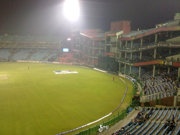 Feroz Shah Kotla, New Delhi, during a match between WI and RSA.